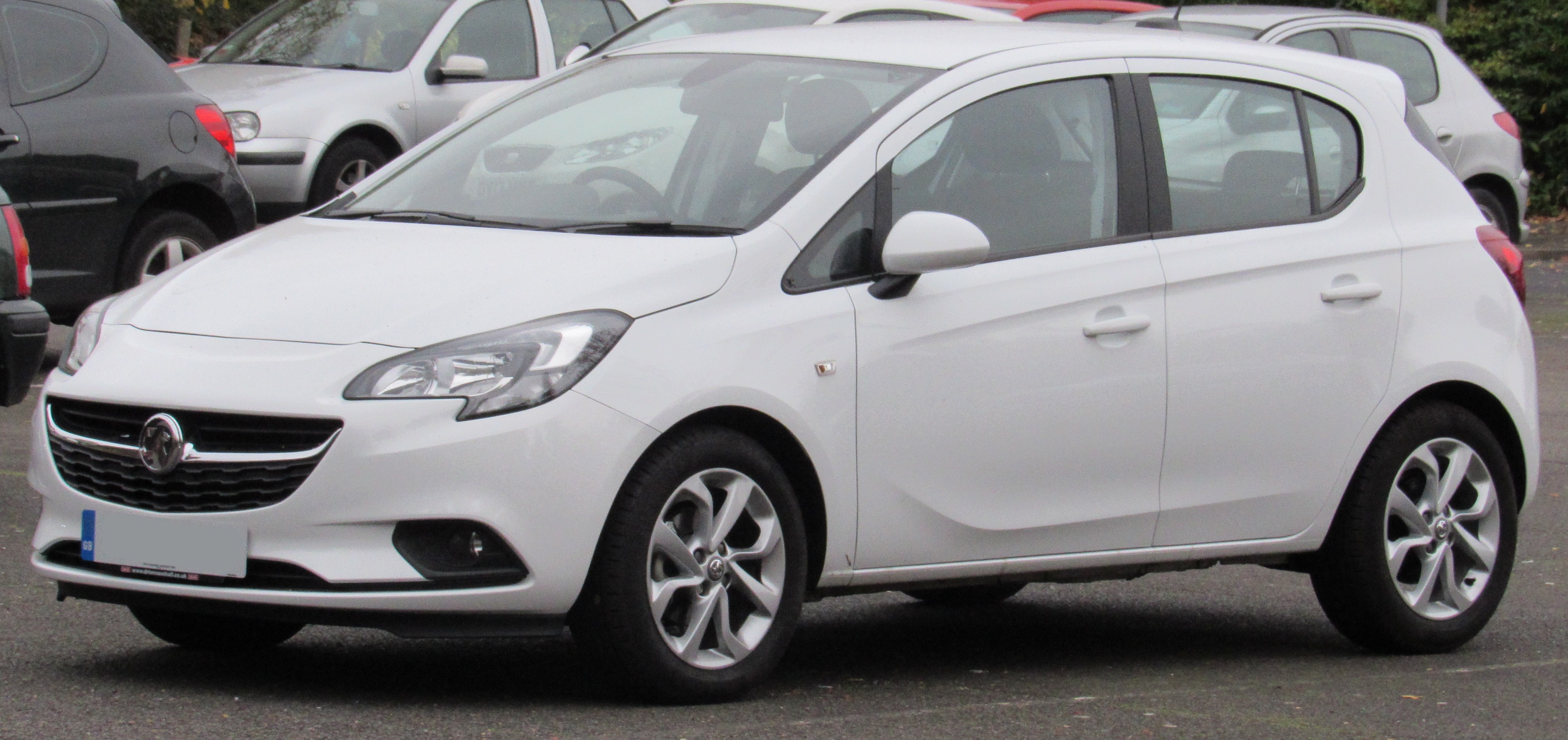 2017 Vauxhall Corsa Energy Ecoflex 1.4 Taken in Leamington Spa